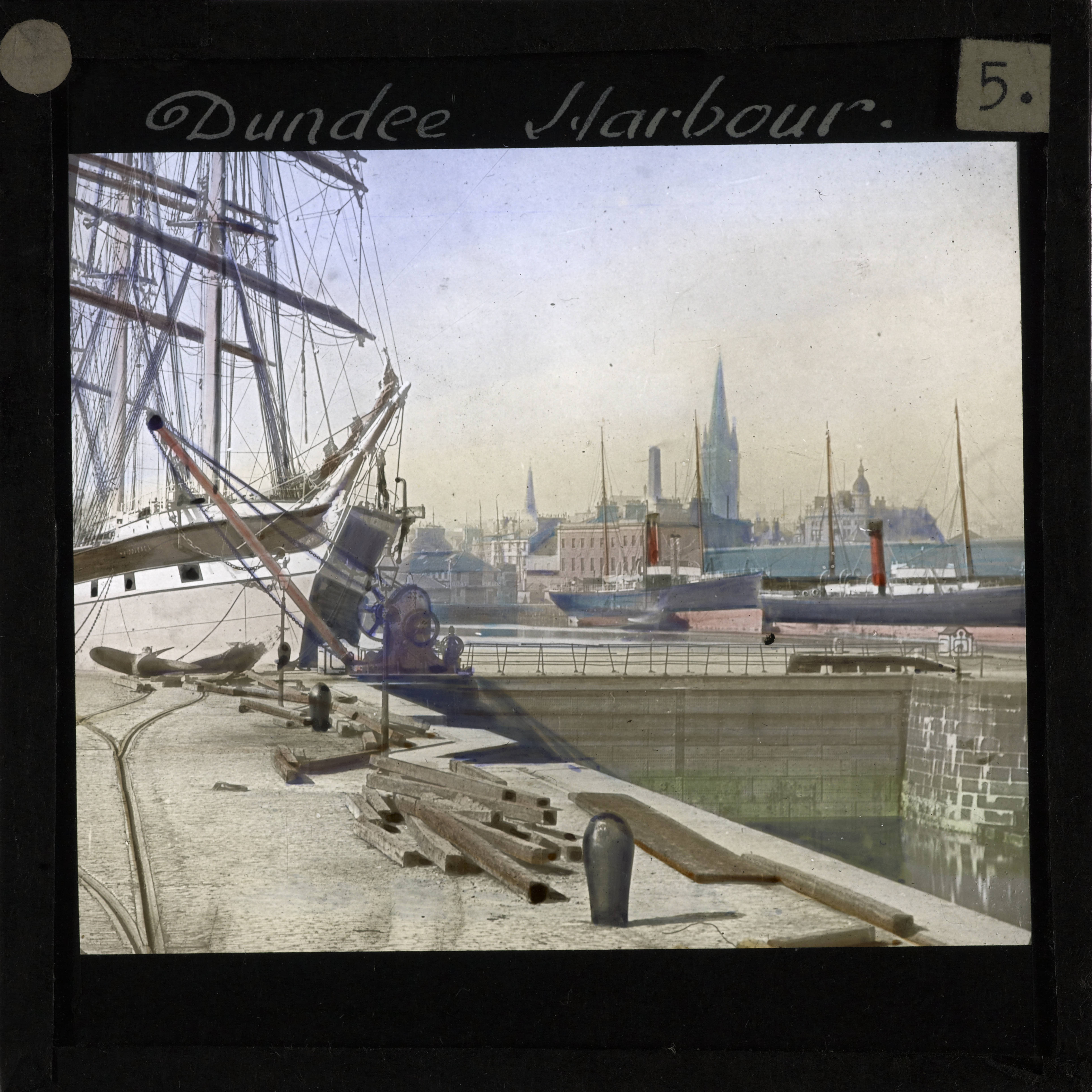 Dundee Harbour, late 19th century Image of Dundee harbour with a sailing ship in the foreground and the city skyline in the background. Image also shows two steam ships.; Mary Slessor was born in Aberdeen in 1948 but moved to Dundee in 1859. Here Mary, aged 11, entered Baxter's textile works, working for half the day and attending school the other half. At the age of 14 Mary left school in Dundee and worked long days in the jute mills. Photographer: Unknown Filename: imp-cswc-GB-237-CSWC47-LS2-005.tif Coverage date: circa 1880 Part of collection: International Mission Photography Archive, ca.1860-ca.1960 Type: images Part of subcollection: Photographs from the Centre for the Study of World Christianity, University of Edinburgh, U.K., ca.1900-ca.1940s Repository name: Centre for the Study of World Christianity Archival file: impa_Volume378/2342.url Geographic subject (city or populated place): Dundee Repository address: The University of Edinburgh School of Divinity, New College, Mound Place, Edinburgh EH1 2LX, United Kingdom Geographic subject (country): Scotland Format (aacr2): 1 lantern slide : 8 x 8 cm. Rights: Contact the repository for details. Part of series: Mary Slessor LS2 Repository Subject (lcsh Keyword): Shipping Date created: circa 1880 Publisher (of the digital version): University of Southern California. Libraries Subject (aat genre): cityscapes Format (aat): lantern slides Legacy record ID: impa-m68149 Access conditions: File: GB 237 CSWC47/LS2/5